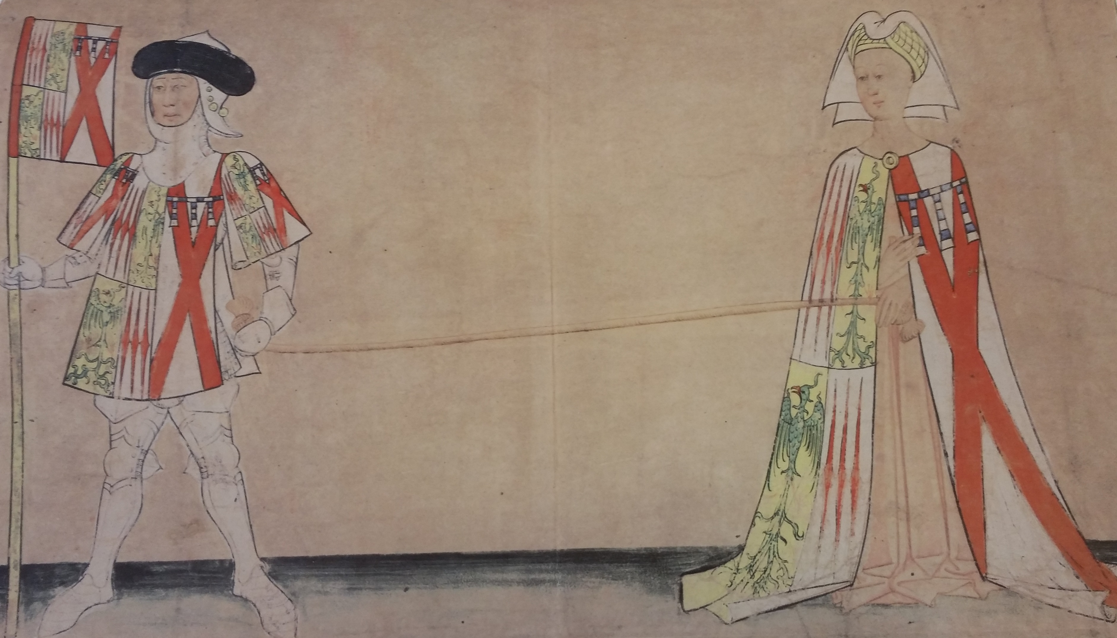 Richard Neville, 5th Earl of Salisbury KG PC (c. 1400 – 31 December 1460) and his wife Alice Montagu, daughter and only legitimate child of Thomas Montagu, 4th Earl of Salisbury. Unusually, he gives place of honour to the arms of his wife on his surcoat and on her mantle, placing them on the dexter half, impaling his own arms of Neville (with tinctures transposed in error).